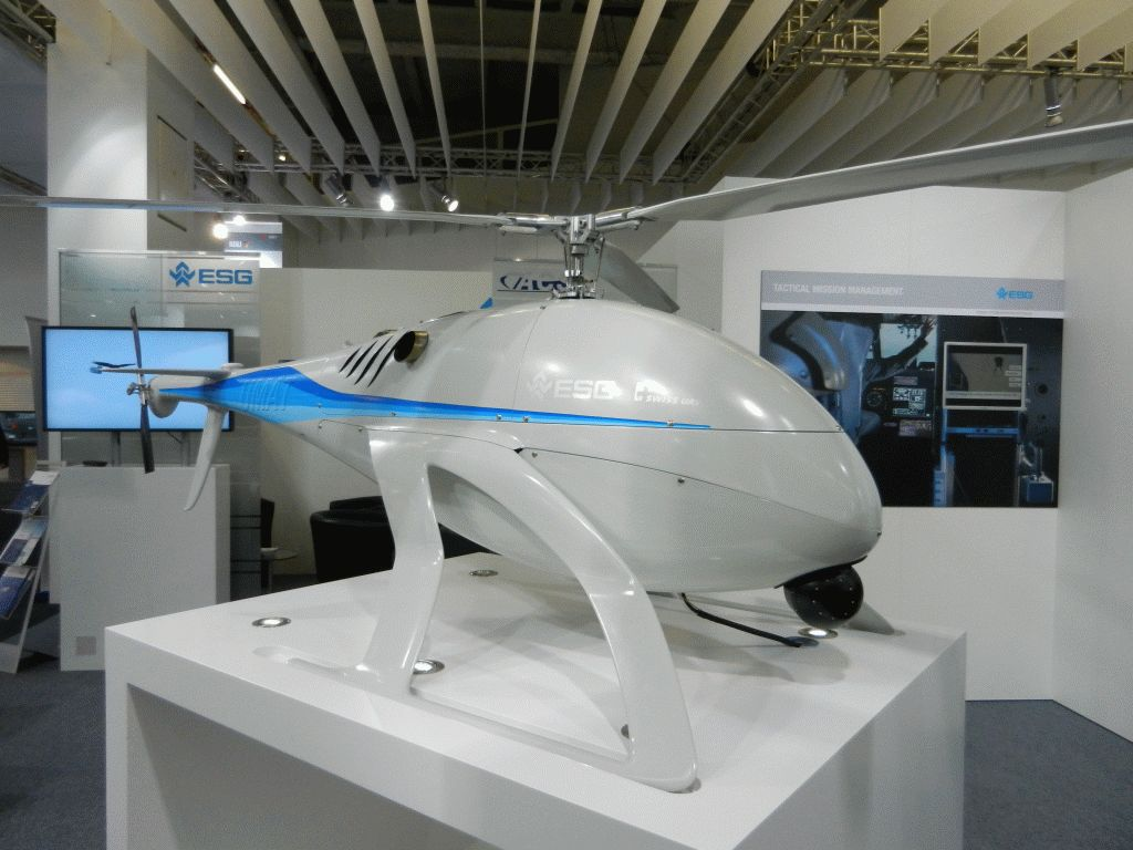 The Swiss UAV NEO S-300 on display.